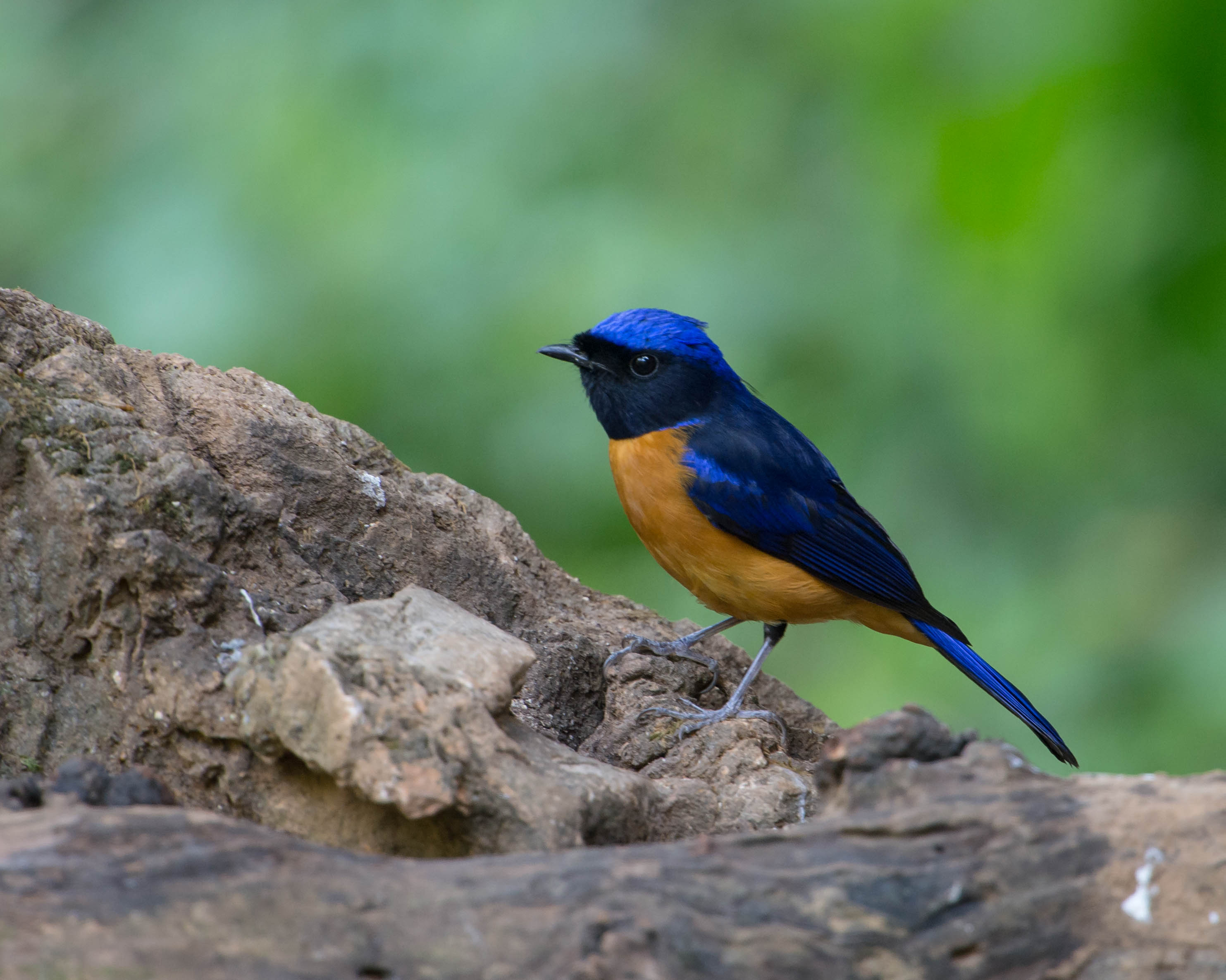 Rufous-bellied Niltava (Niltava sundara denotata) Doi Ang Khang, Chiang Mai, Thailand. 20 March 2013